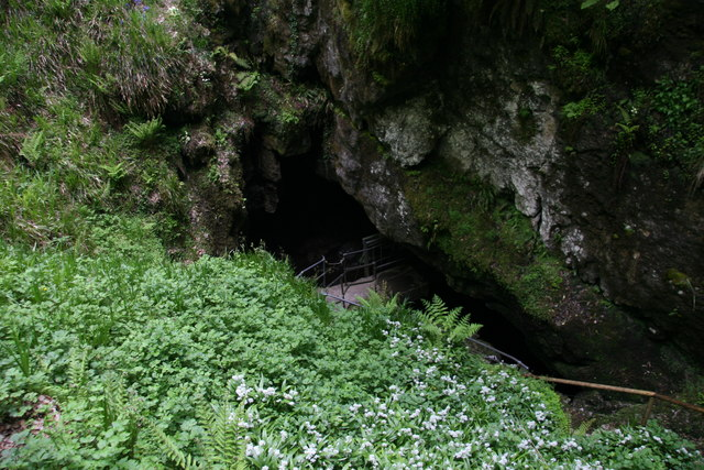 Marble Arch Caves. This is the entrance to Marble Arch Caves a European Geopark at the edge of the Cuilcagh Mountains which are Carboniferous Limestone which is often assocaited with Karstic features such as sinkholes and caves.